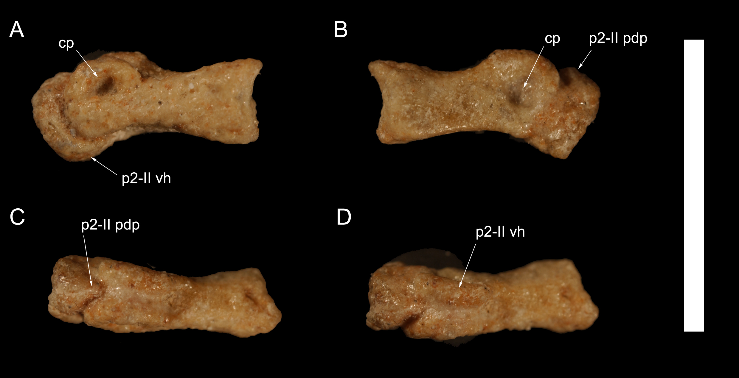 Right pedal phalanx P1-II and proximal end of pedal phalanx p2-II of Hulsanpes perlei (ZPAL MgD-I/173). Medial view (A), lateral view (B), dorsal view (C), ventral view (D). Abbreviations: cp, collateral pit; p2-II pdp, posterodorsal process of phalanx p2-II; p2-II vh, ventral heel of phalanx p2-II. Scale bar: 10 mm.